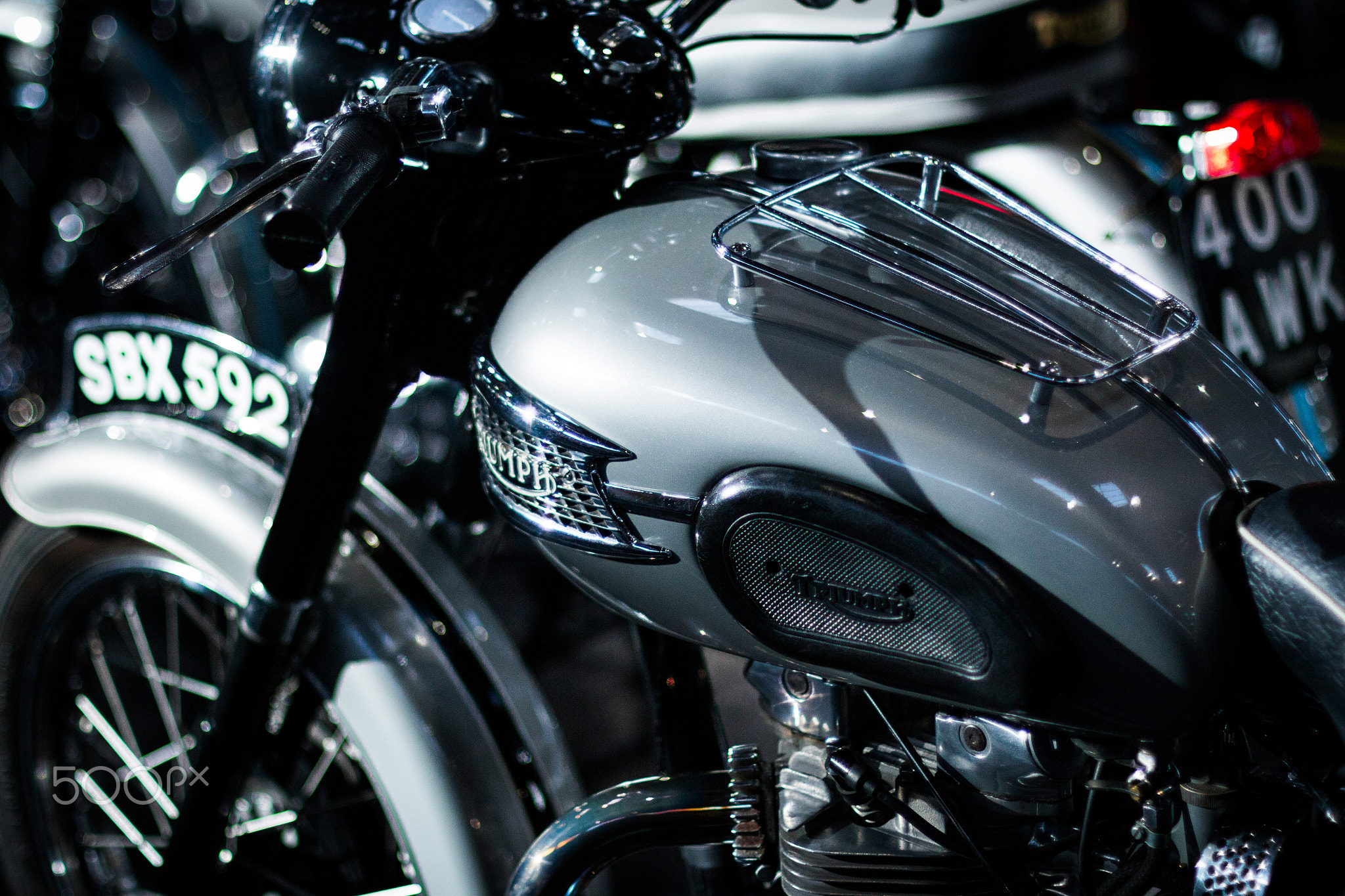 500px provided description: Vintage Motorbike [#show ,#old ,#vintage ,#motorcycle ,#classic ,#motorbike ,#motor ,#classic bike ,#sportsbike]